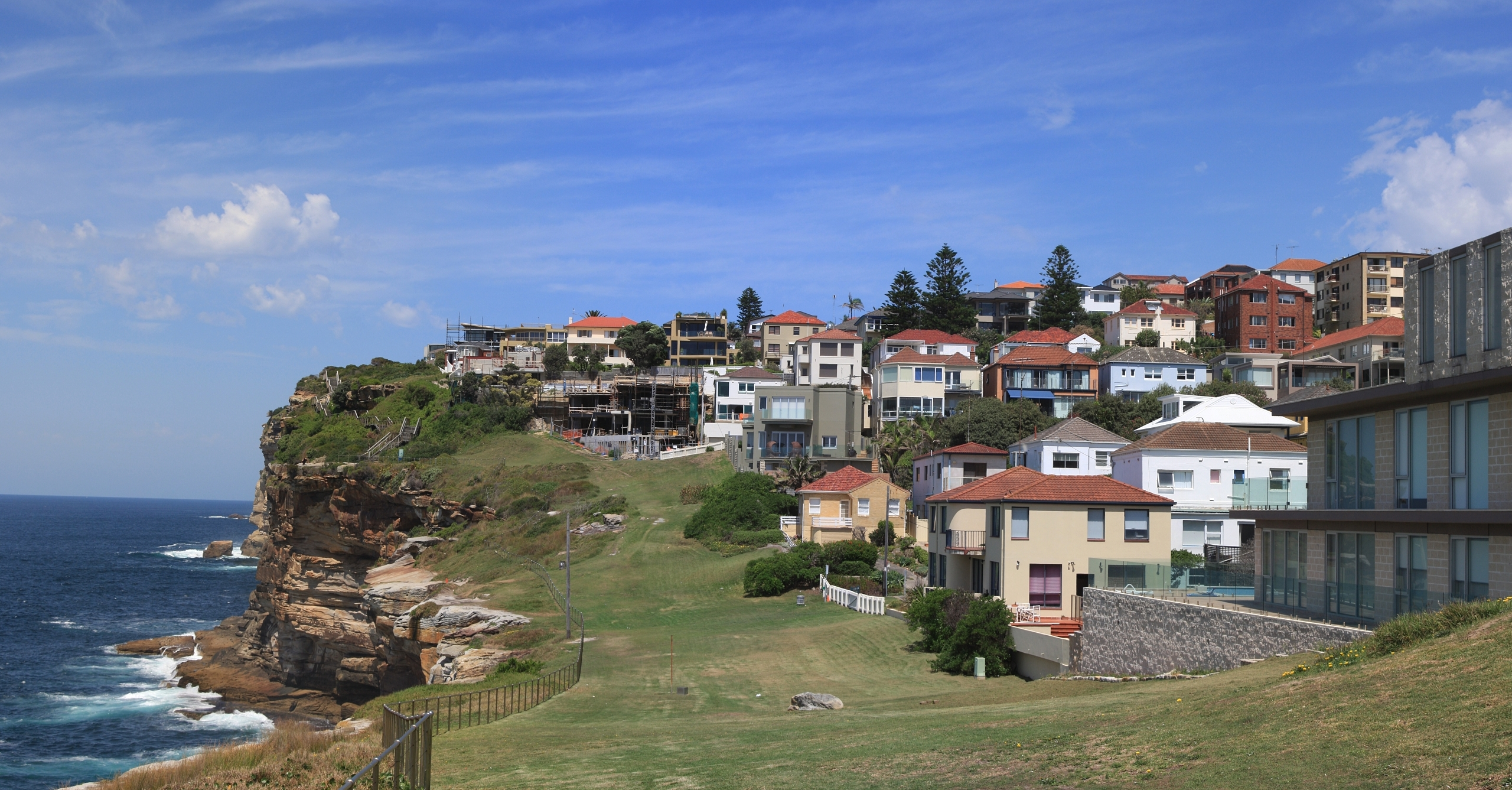 Dover Heights from Rose Bay North